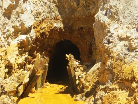 Entrance to Gold King Mine County Road 52 Silverton (San Juan County), CO 81433 Latitude: 37.8945000 Longitude: -107.6384000